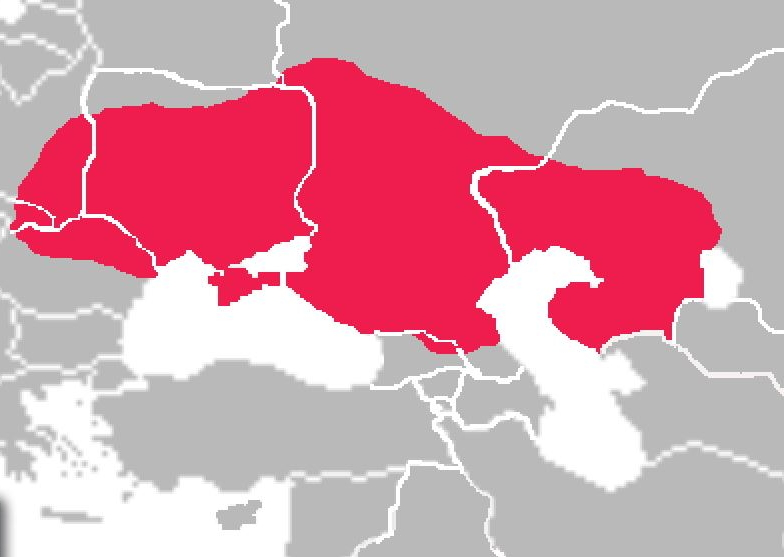 saromat-land